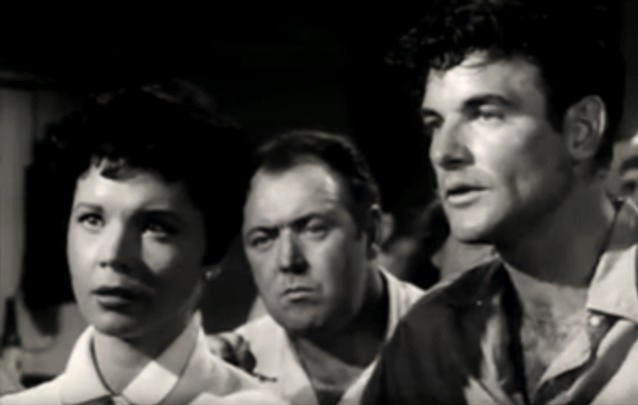 Colleen Miller (left) & James Best (right) in Hot Summer Night - trailer (cropped screenshot)